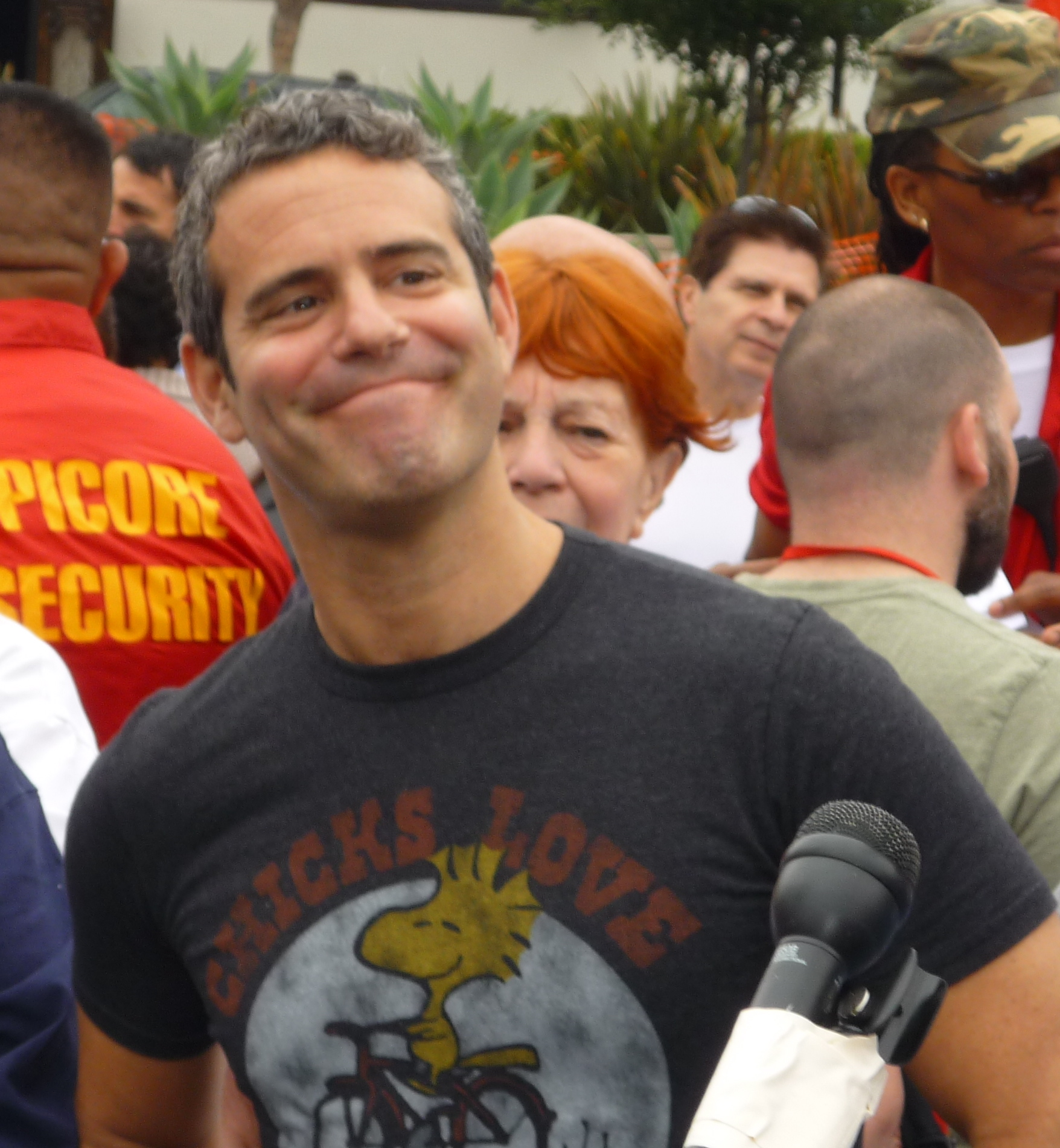 Andy Cohen as photographed by Greg Hernandez, July 2008.